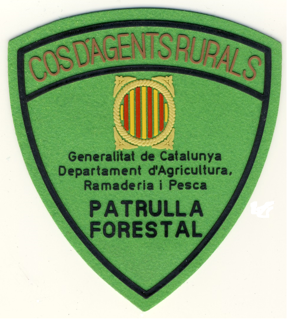 Coat of arms (patches) of the first Forest Ranger patrols, period 1988-1999